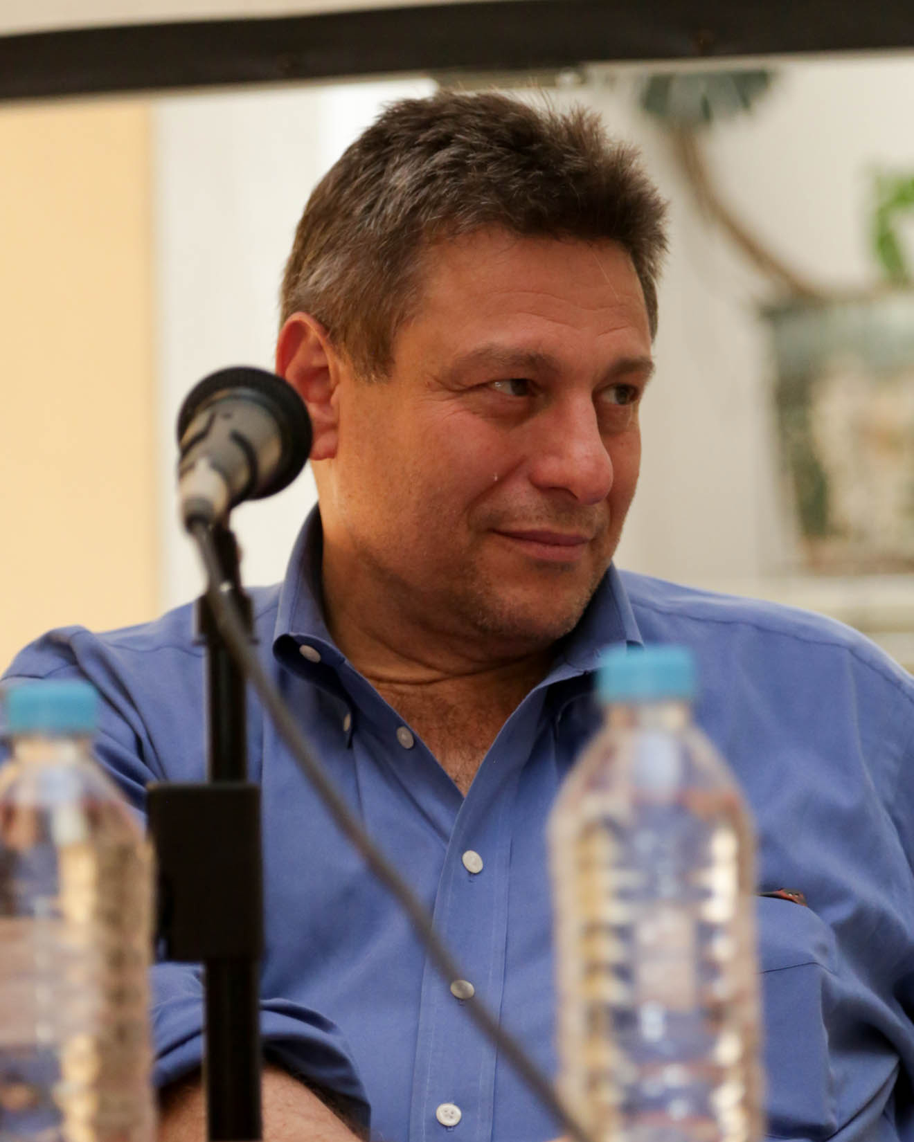 Richard Peña at Ambulante Documentary Film Festival, in Oaxaca, Mexico. 5 May, 2013. Picture by Karloz Byrnison.